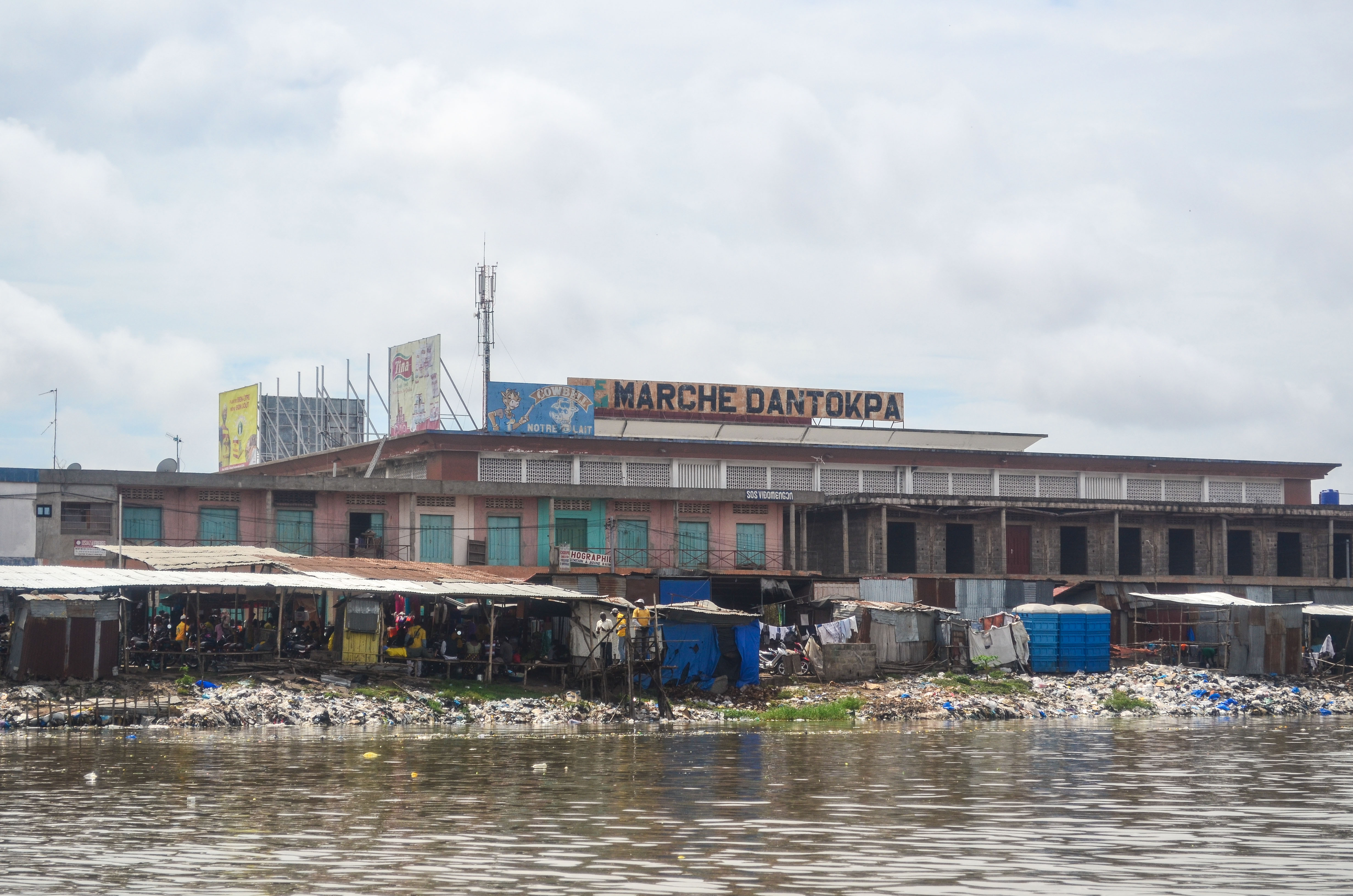 Taken on 05 October 2013 in Benin around Ganvié : Cycling Africa beyond mountains and deserts until Cape Town